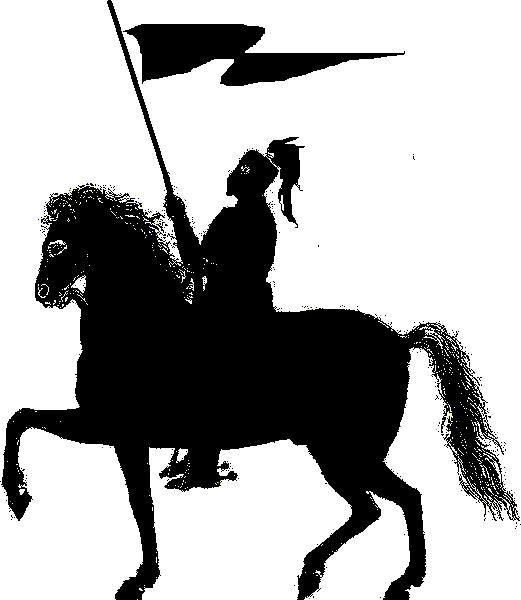 An image of Armored Mounted Man, black and white, a derivative from another wikimedia file, intended to be used in graphical page designs.